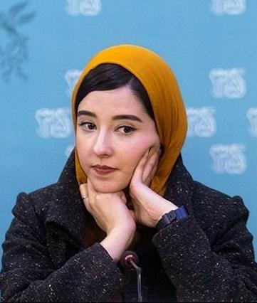 Media conference of Sophie and the beast at Milad tower.